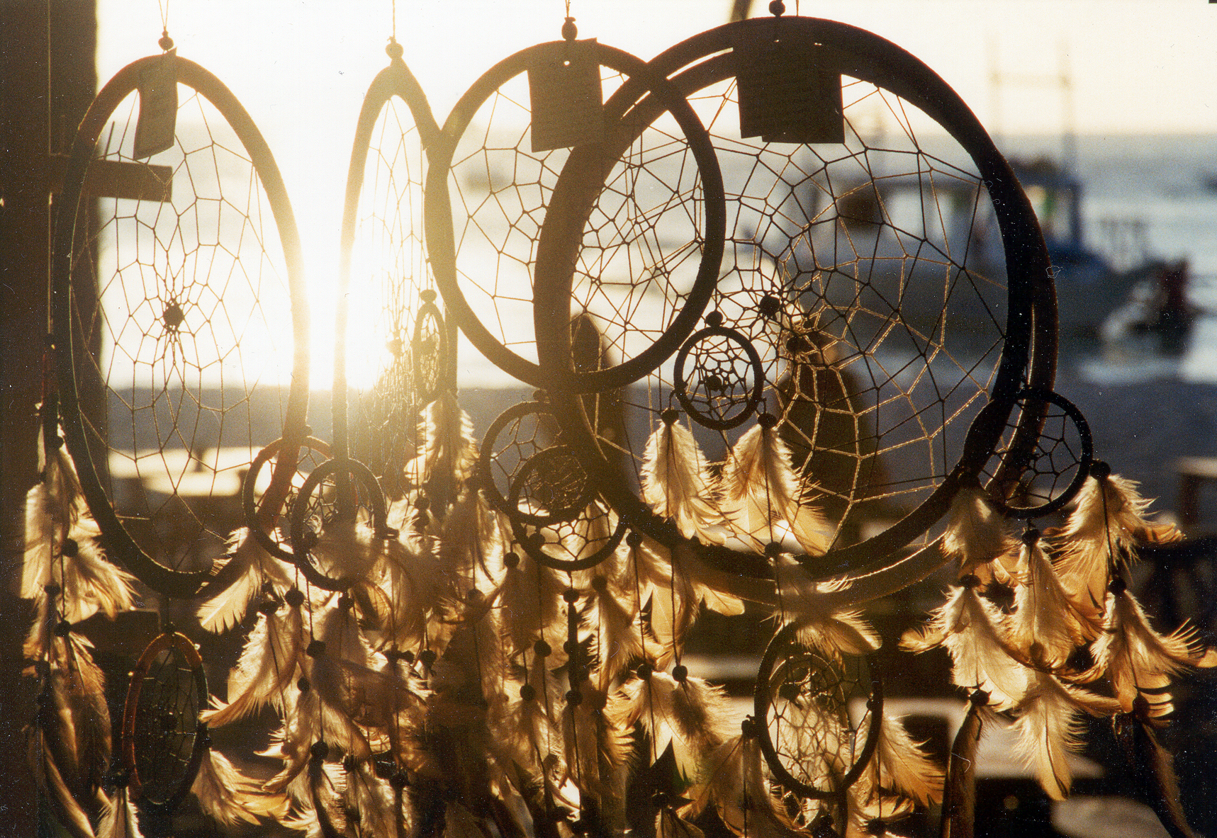 Dreamcatchers